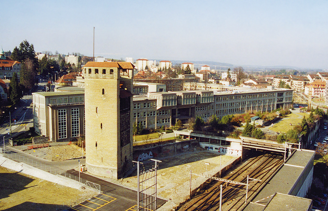 Heinrich tower for expansion of BIBEL+ORIENT Museum Freiburg (Switzerland)